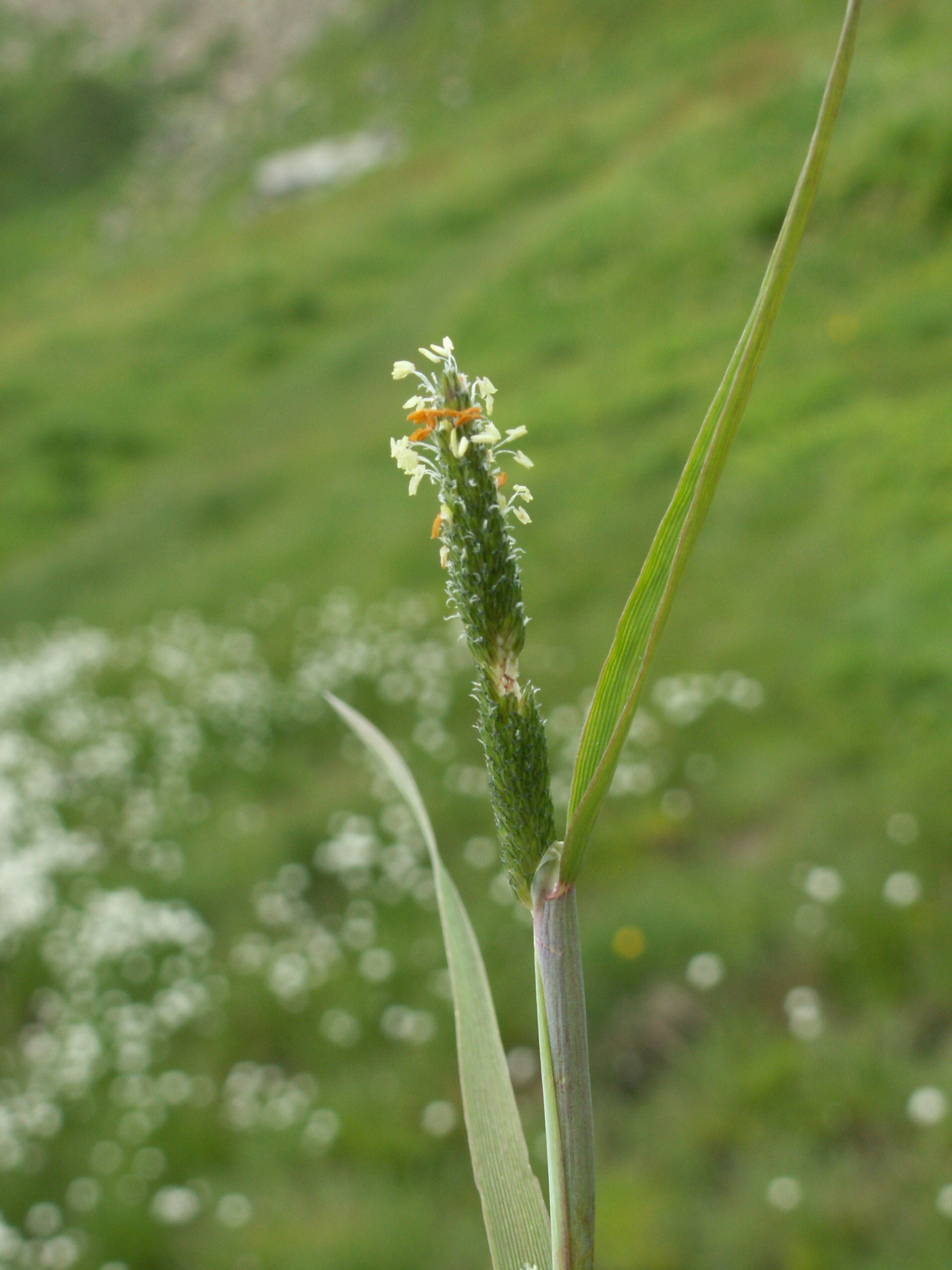 Alopecurus aequalis Quelle: own photograph, Schynige Platte (Switzerland, Kanton Bern) Michael Jutzi Date: 14.7.05